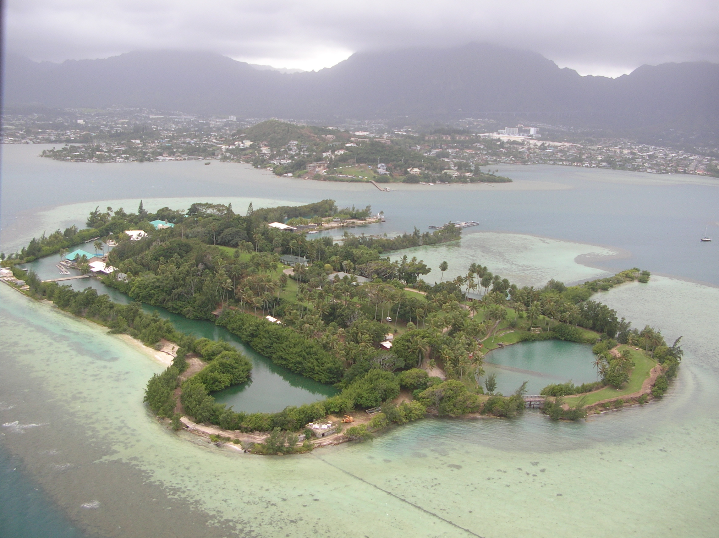 Location: Oahu, Coconut Island